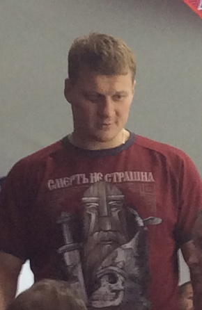 Alexander Povetkin at an ice hockey game, CSKA Ice Palace, Moscow